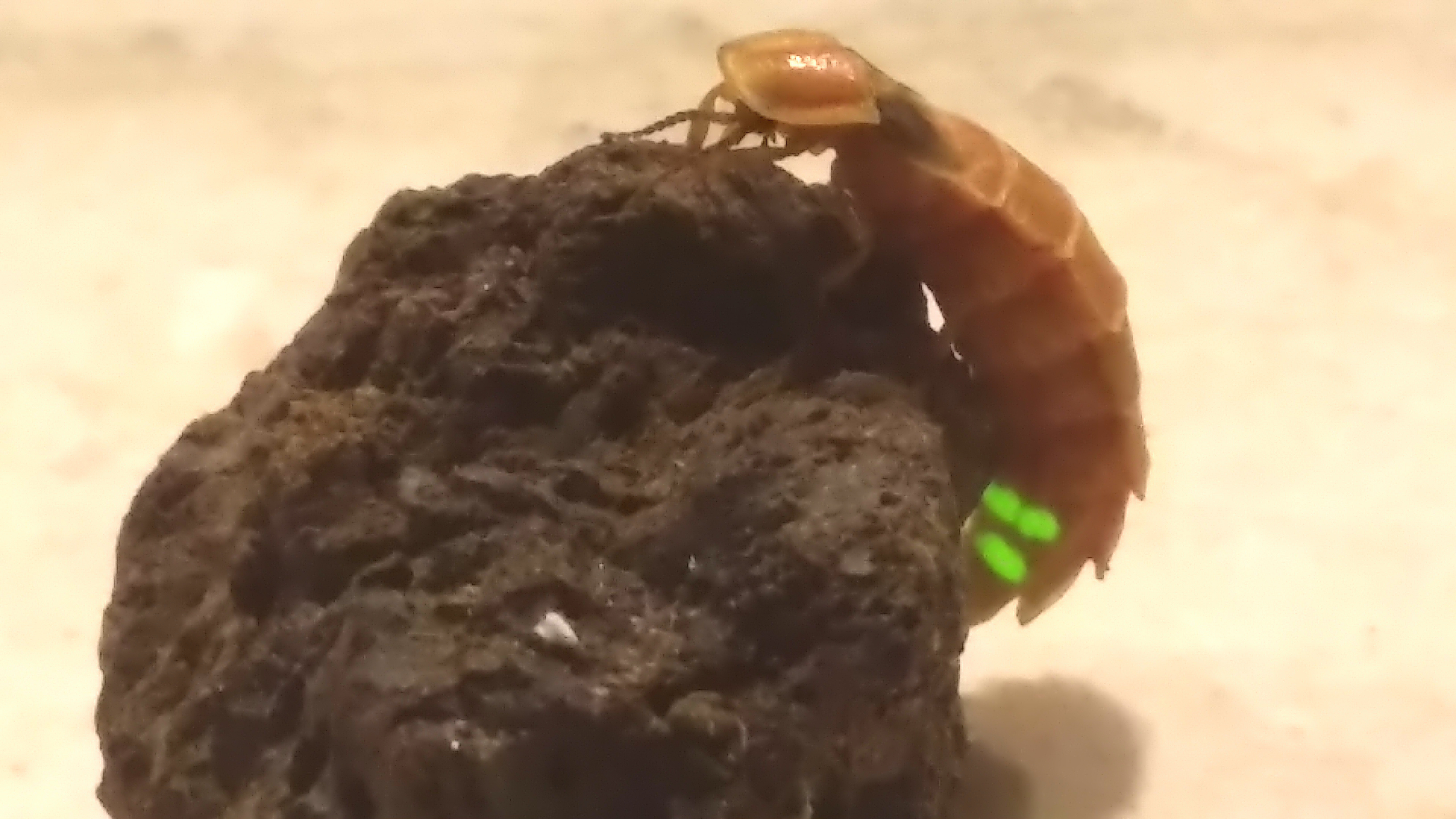 Firefly emitting light. The picture was taken in the north of Israel.